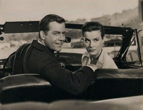 Max Showalter (aka Casey Adams) & Jean Peters in Niagara - publicity still (cropped)